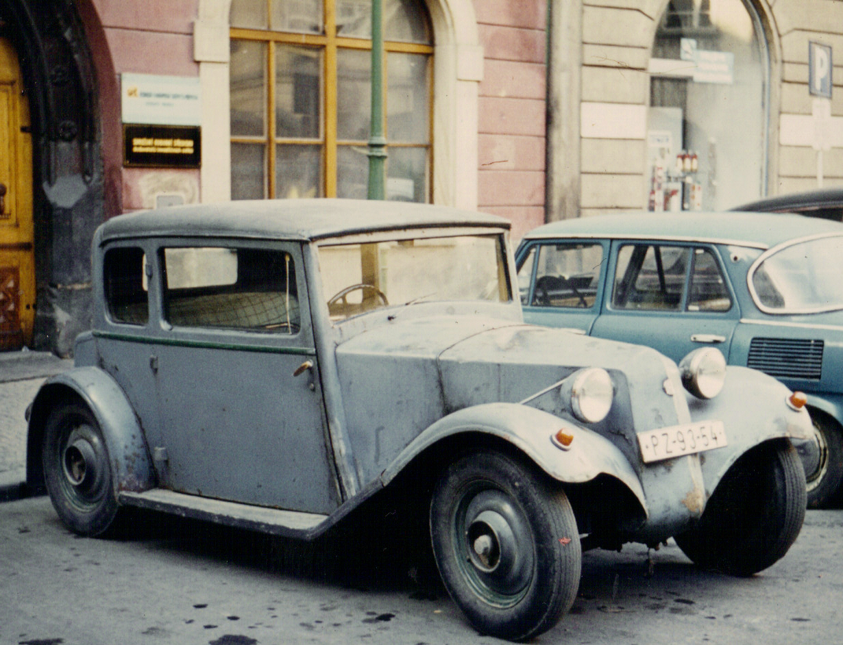 Tatra 57 in Prague, December 1972 (scan from my photo album)